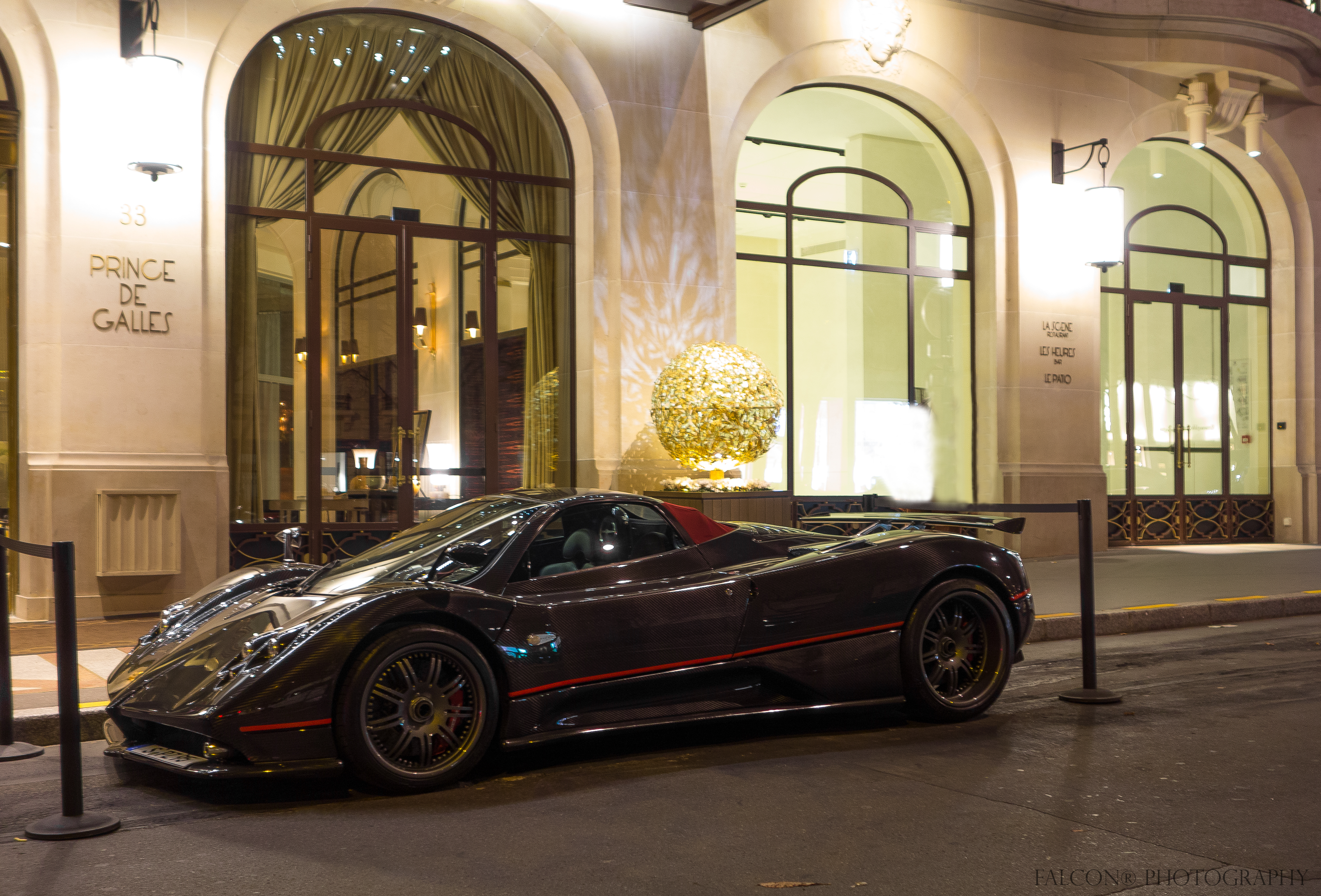 Pagani Zonda F Roadster at the Hôtel Prince de Galles, Paris.